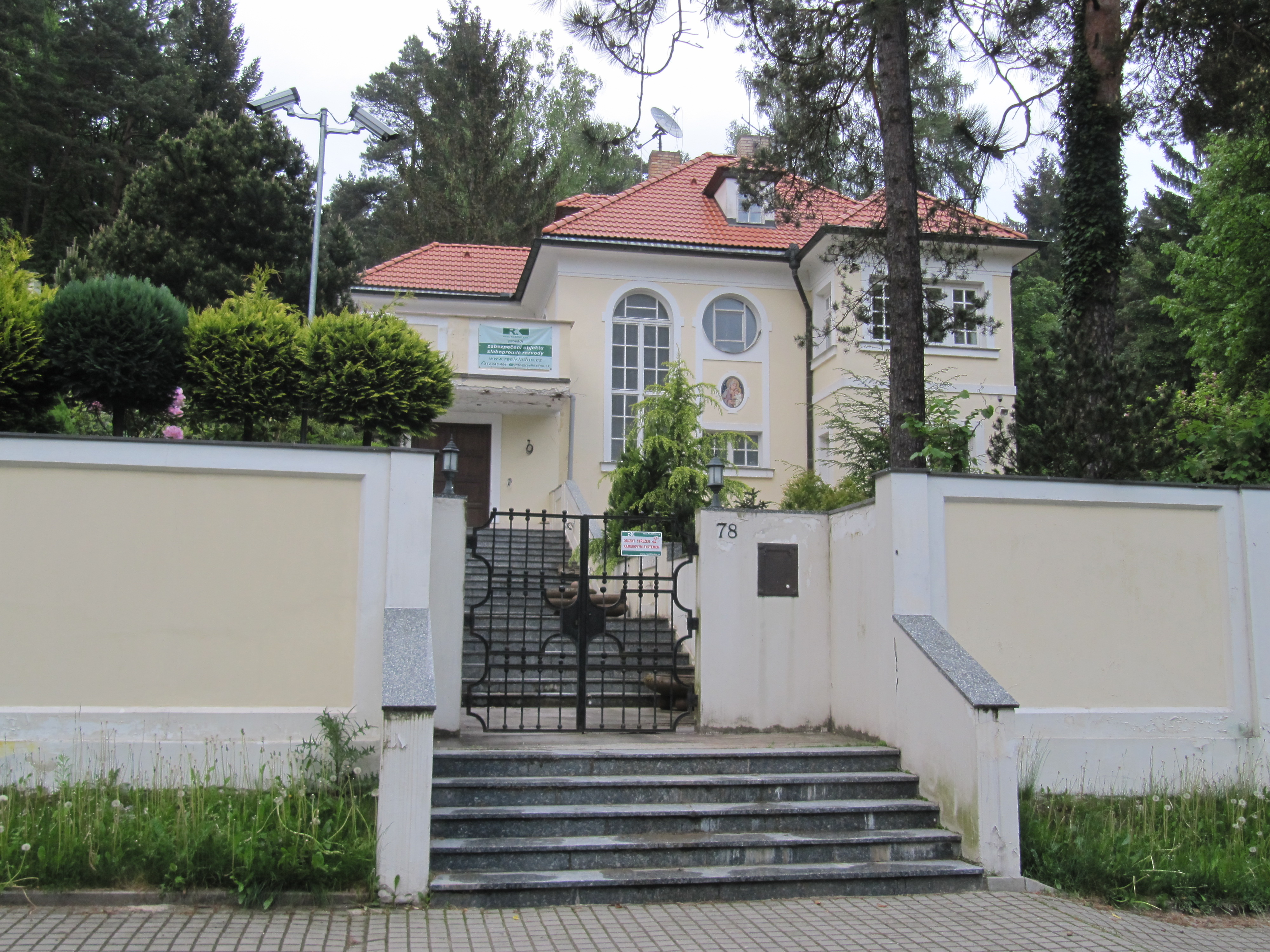 Jevany, Prague-East District, Czech Republic. Former Museum of Karel Gott.